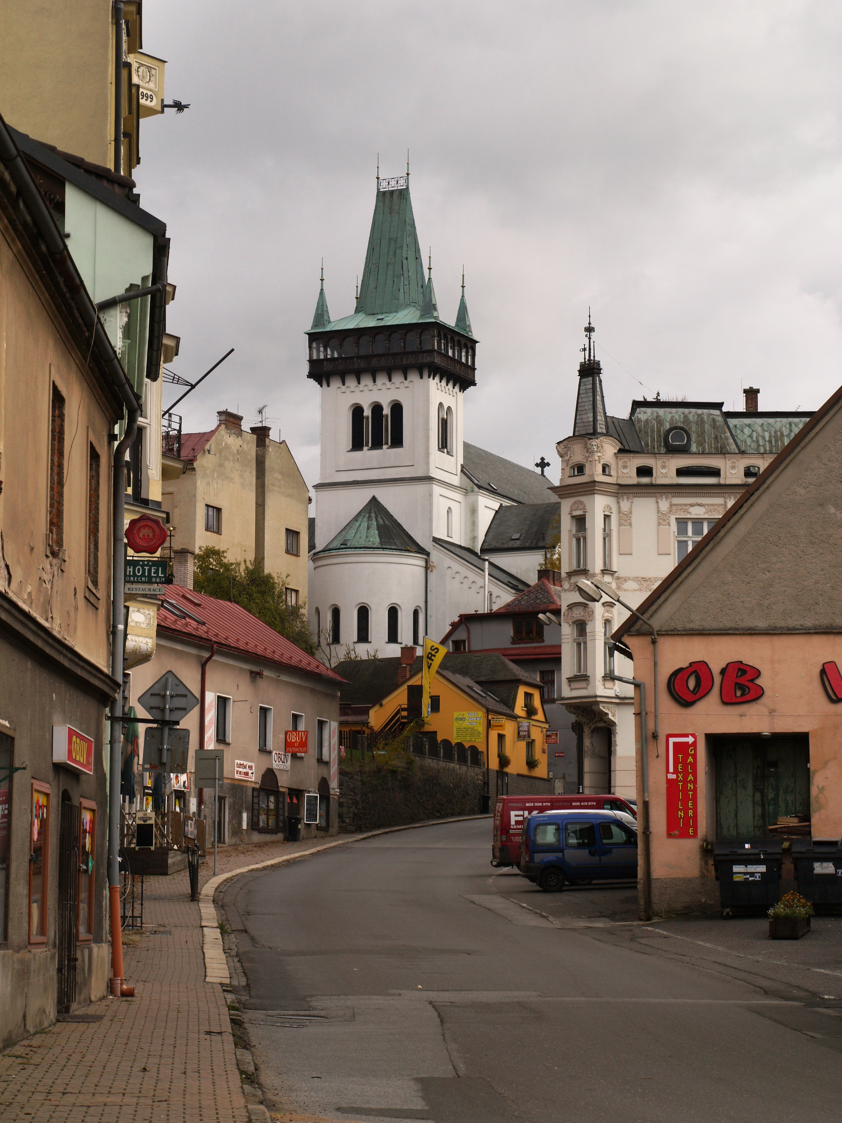 Czech town Semily—a view through Husova street to apse of Church of Saints Peter and Paul